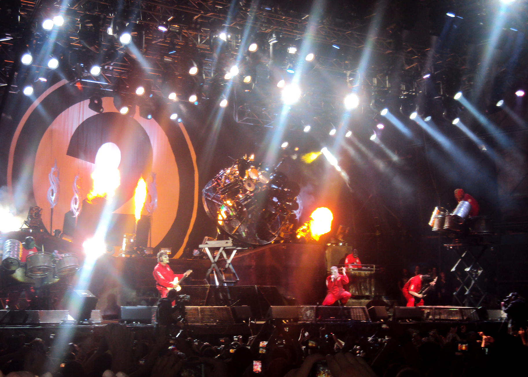 Ending moments of Surfacing.